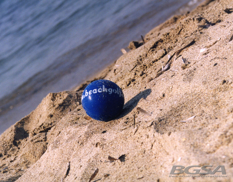 Ball Beach Golf